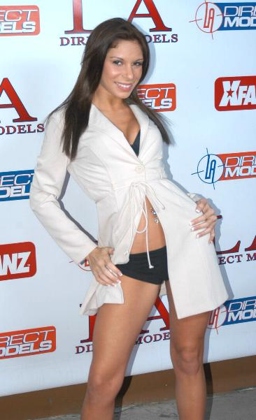 Jan 7 2007: L.A. Direct Models Party.